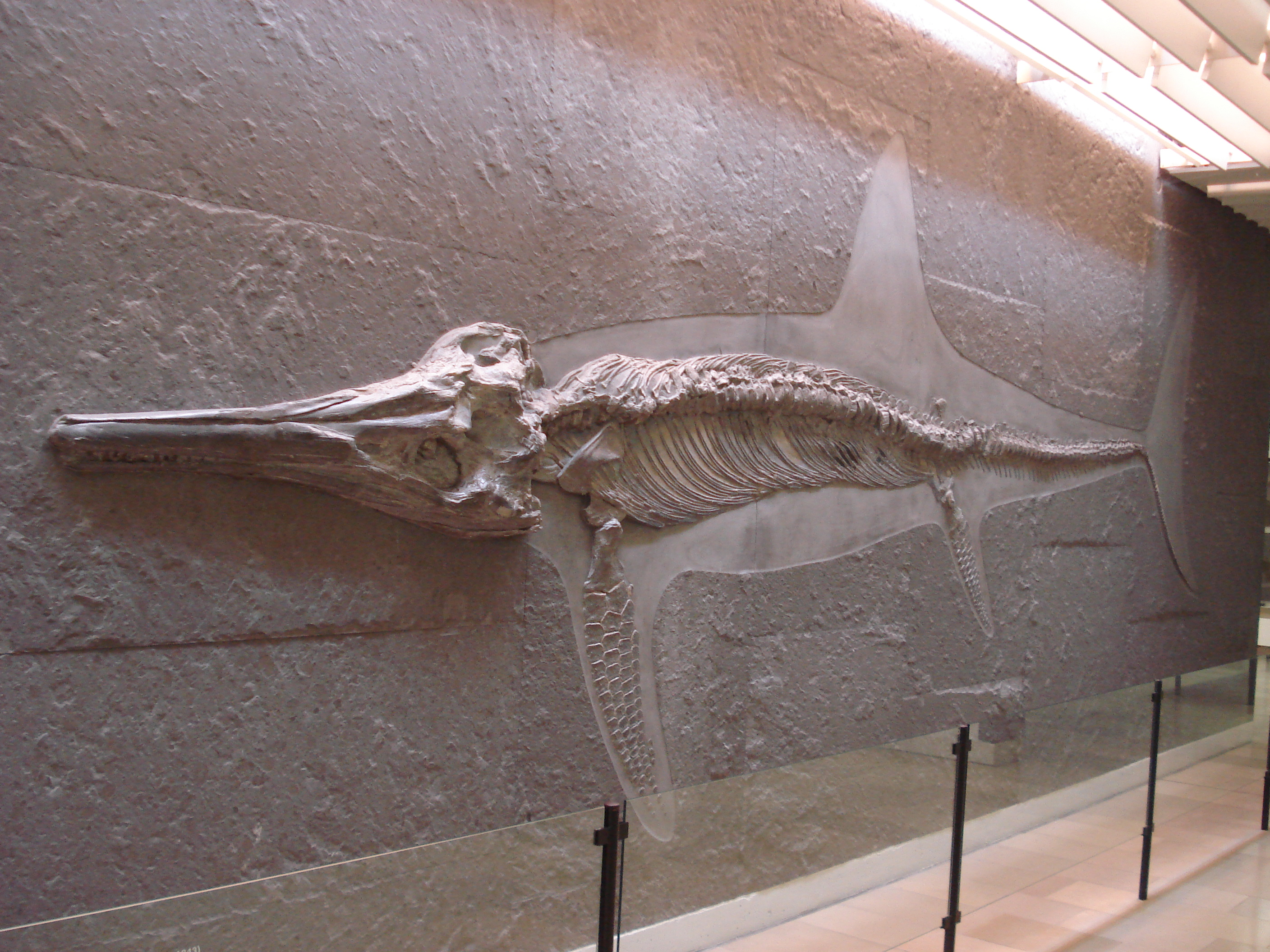 fossil of temnodontosaurus